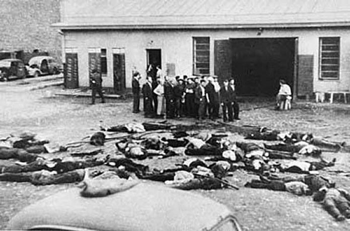 Massacre of 68 Jews in the Lietukis garage of Kaunas (Lithuania)on the 25 or 27 of June 1941